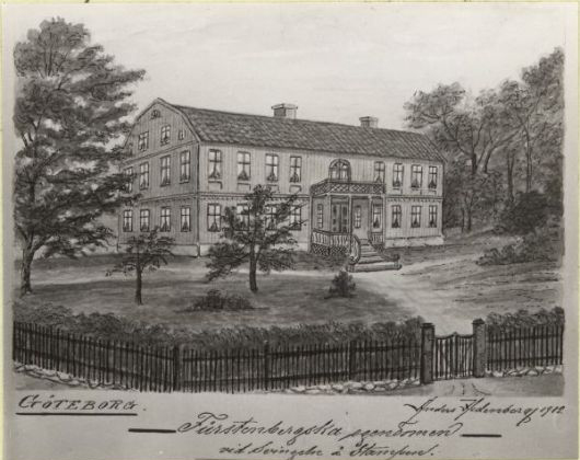 Oscarsdal, a mansion in Gothenburg, Sweden